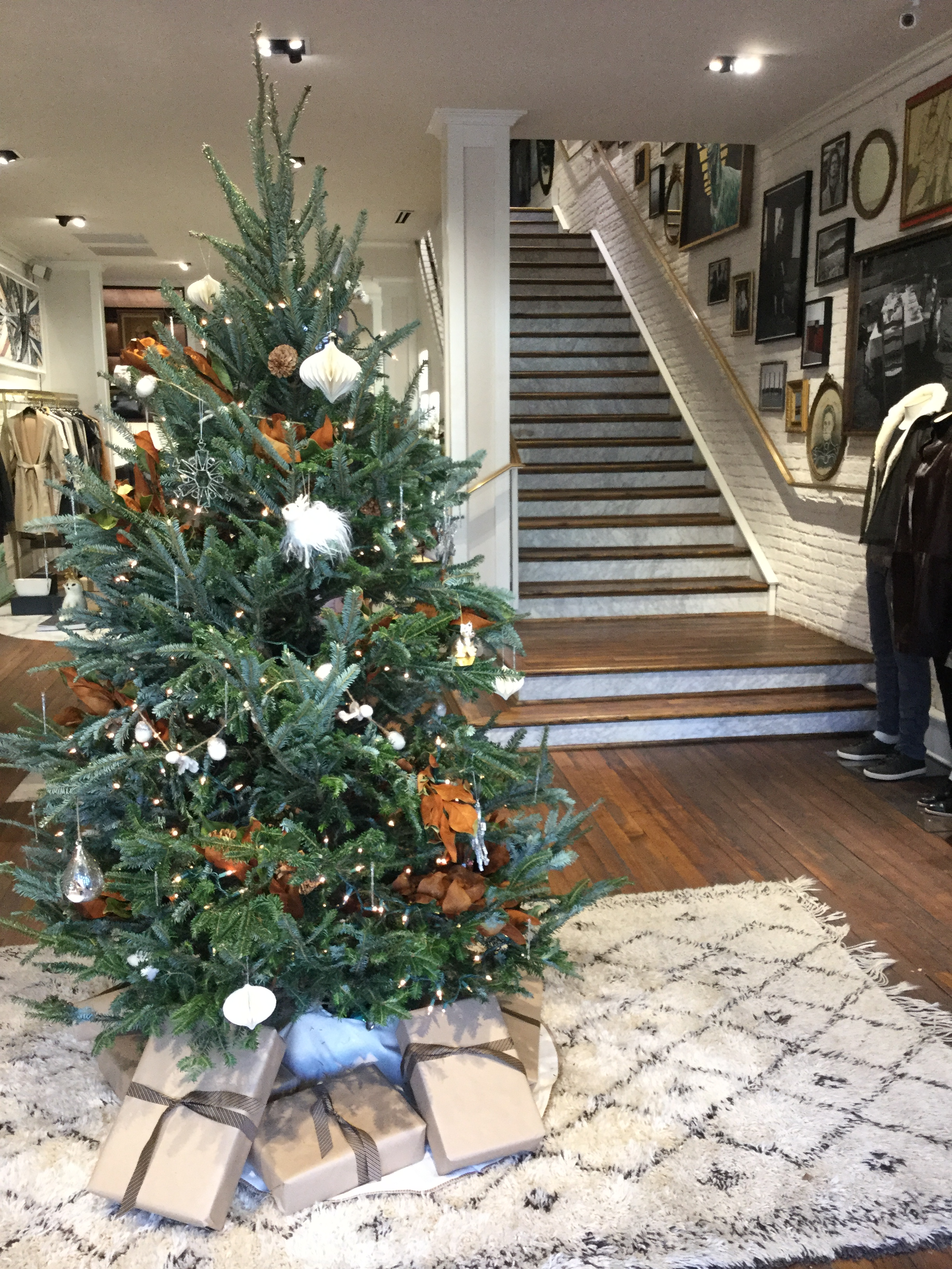 An image of a Christmas tree and staircase